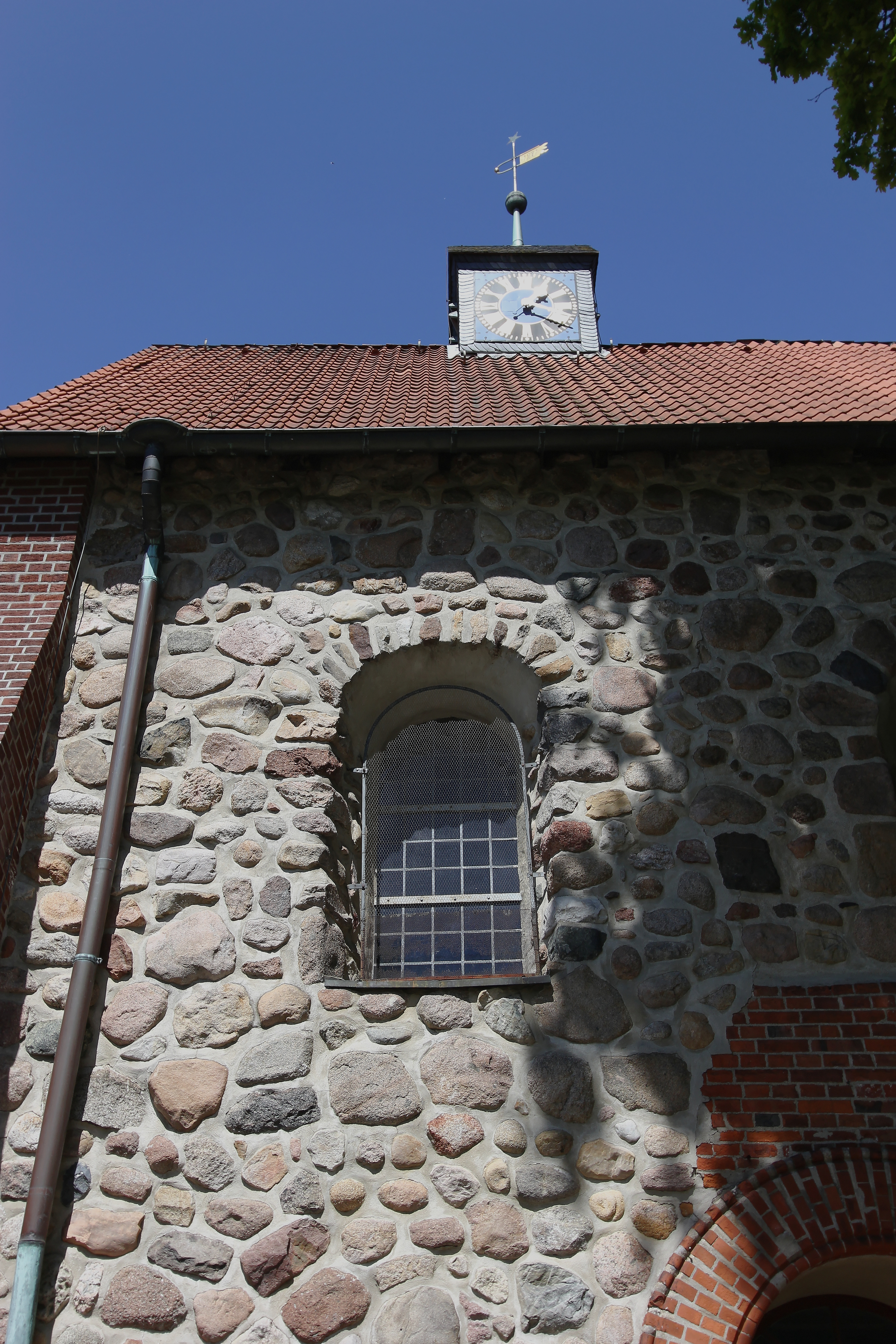 Hittfeld, church St. Mauritius